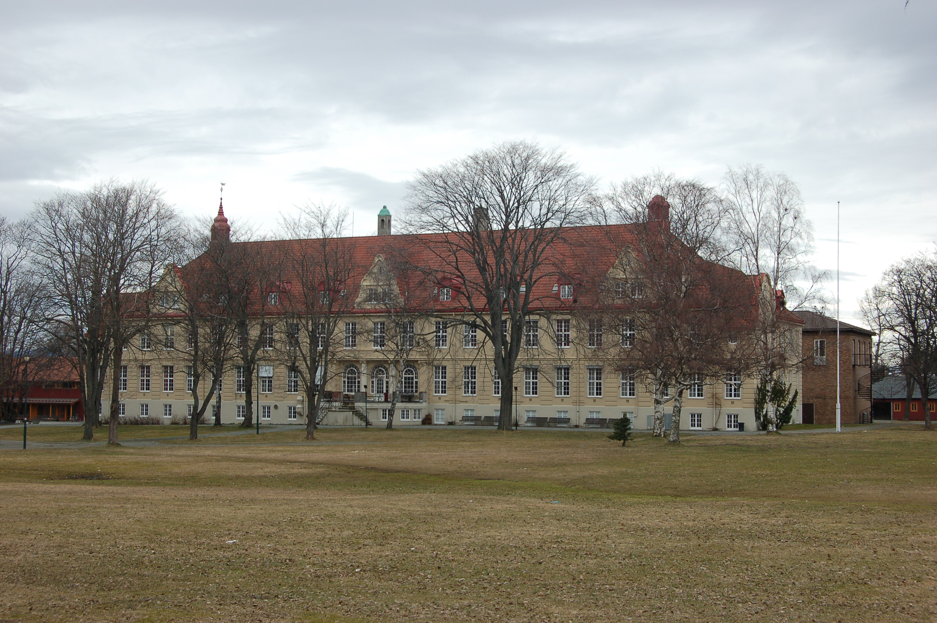 Queen Maud's College of Early Childhood Education main building, Trondheim, Norway